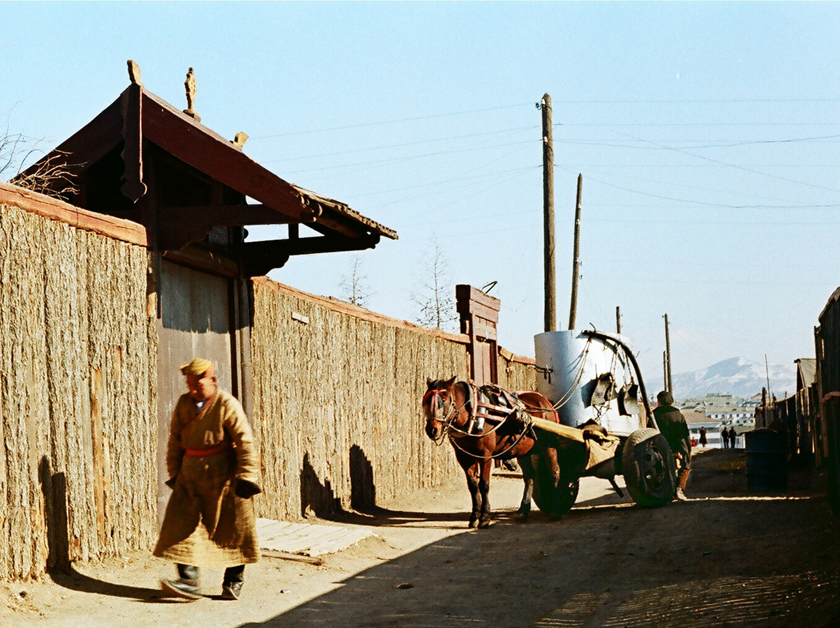 Water cart. Gandan Monastery Hill, Ulan Bator, Mongolia, (1972)